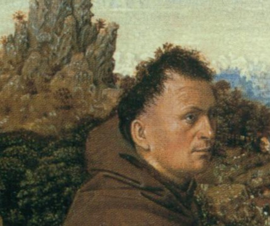 Detail: Saint Francis of Assisi Receiving the Stigmata, Philadelphia Museum of Art